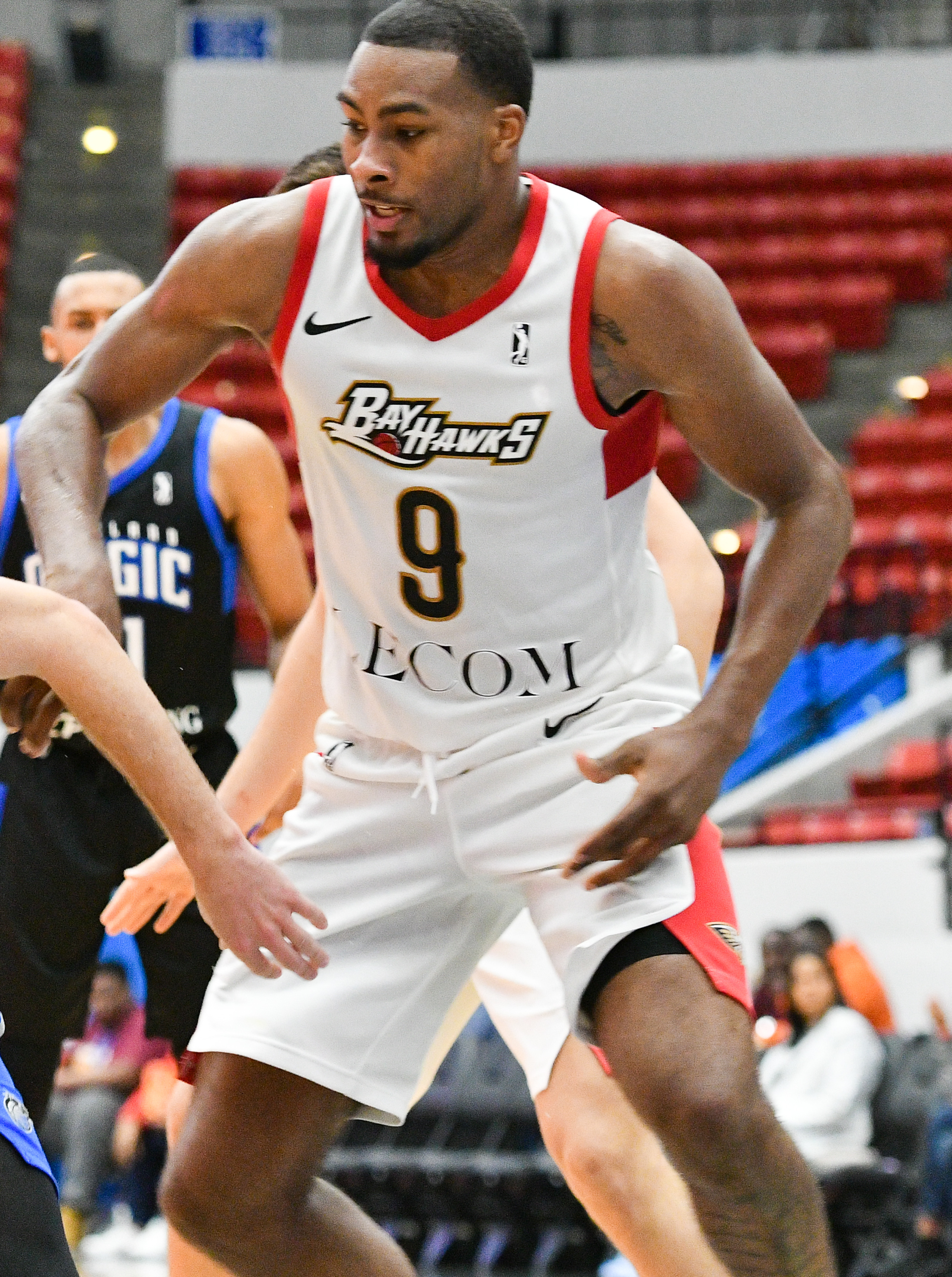 Josh Magette, Javon Bess. Lakeland Magic vs Erie BayHawks. RP Funding Center. Lakeland, Fla. Nov. 17, 2019. (Photo by Tom Hagerty.)